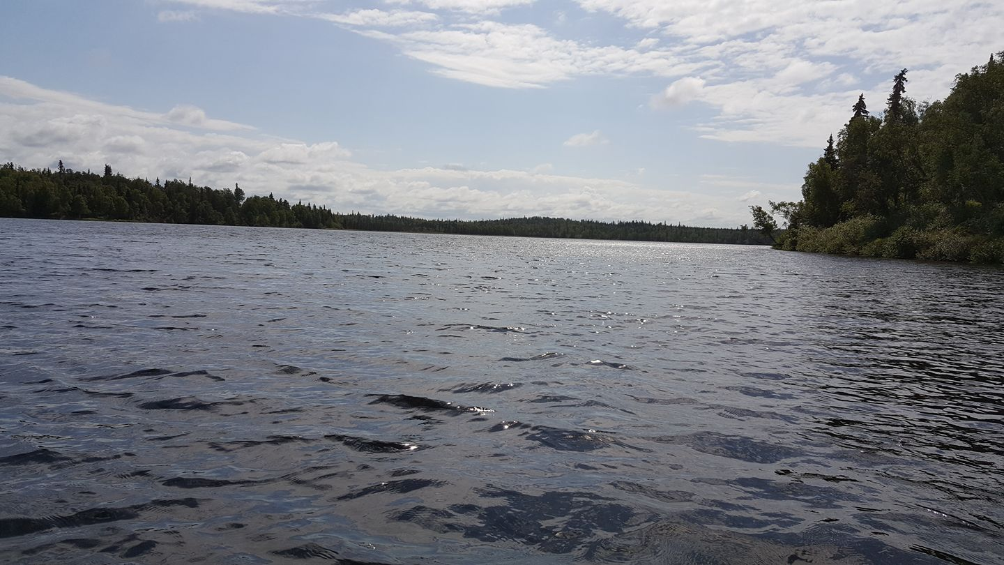 one of the three “bays” of Stormy Lake, Alaksa